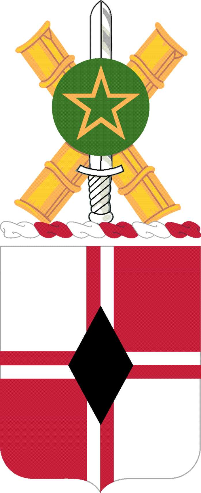 92nd Engineer Battalion coat of arms